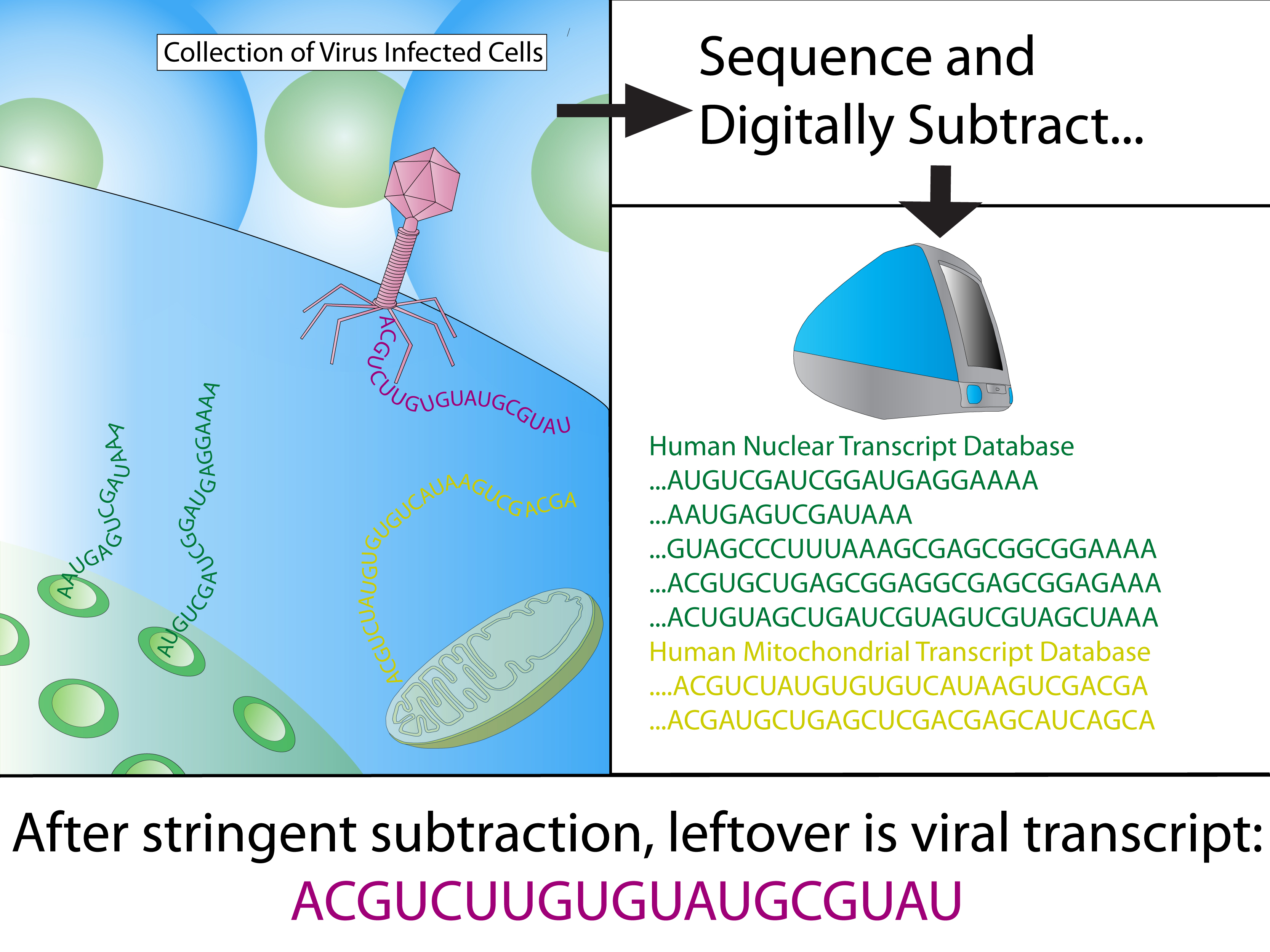 A visualization of the bioinformatic method of digital transcriptome sequencing